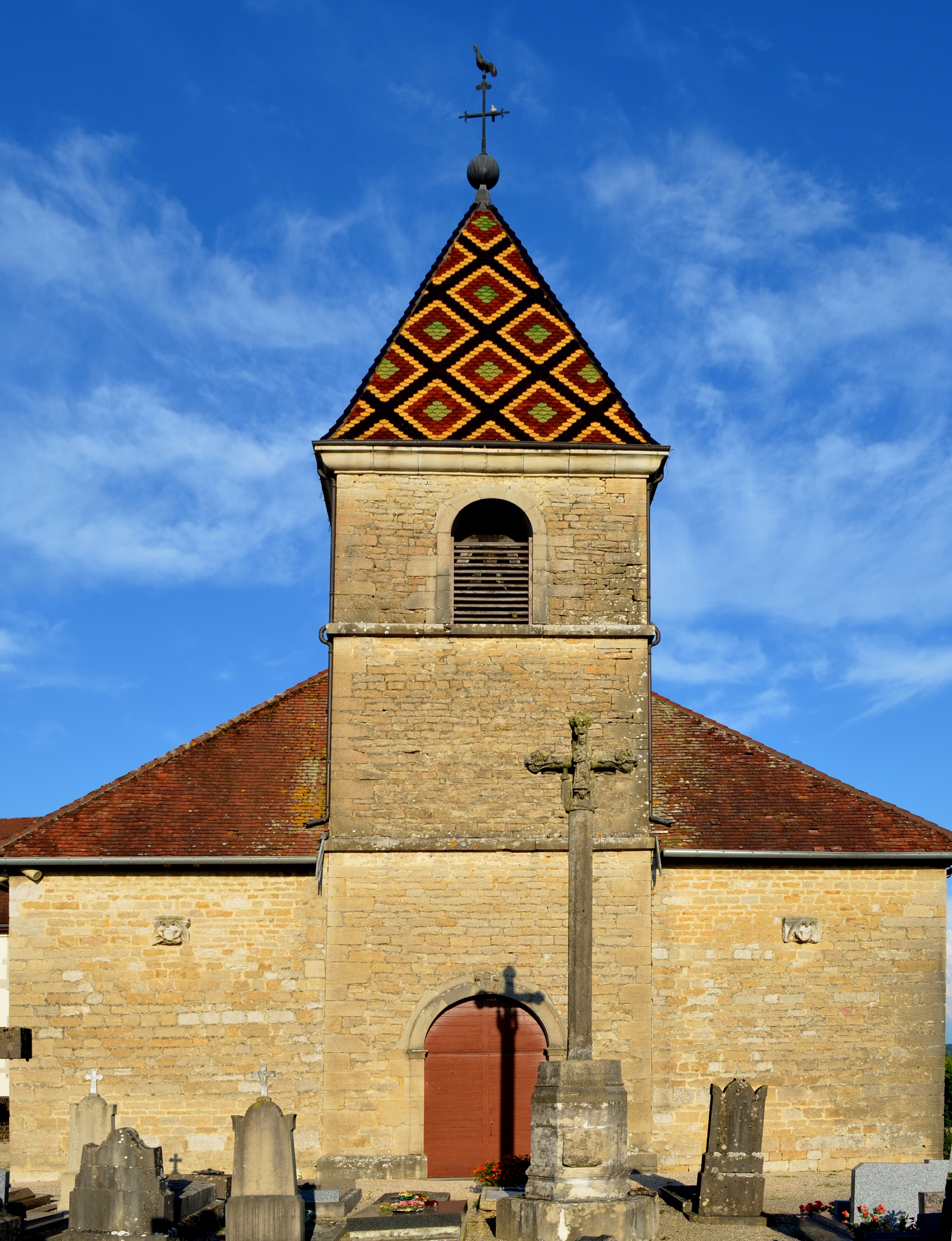 Church of the Assumption of Courlaoux (Jura, France). The cross of cemetery (which is indexed in the Base Mérimée) is in front of it.